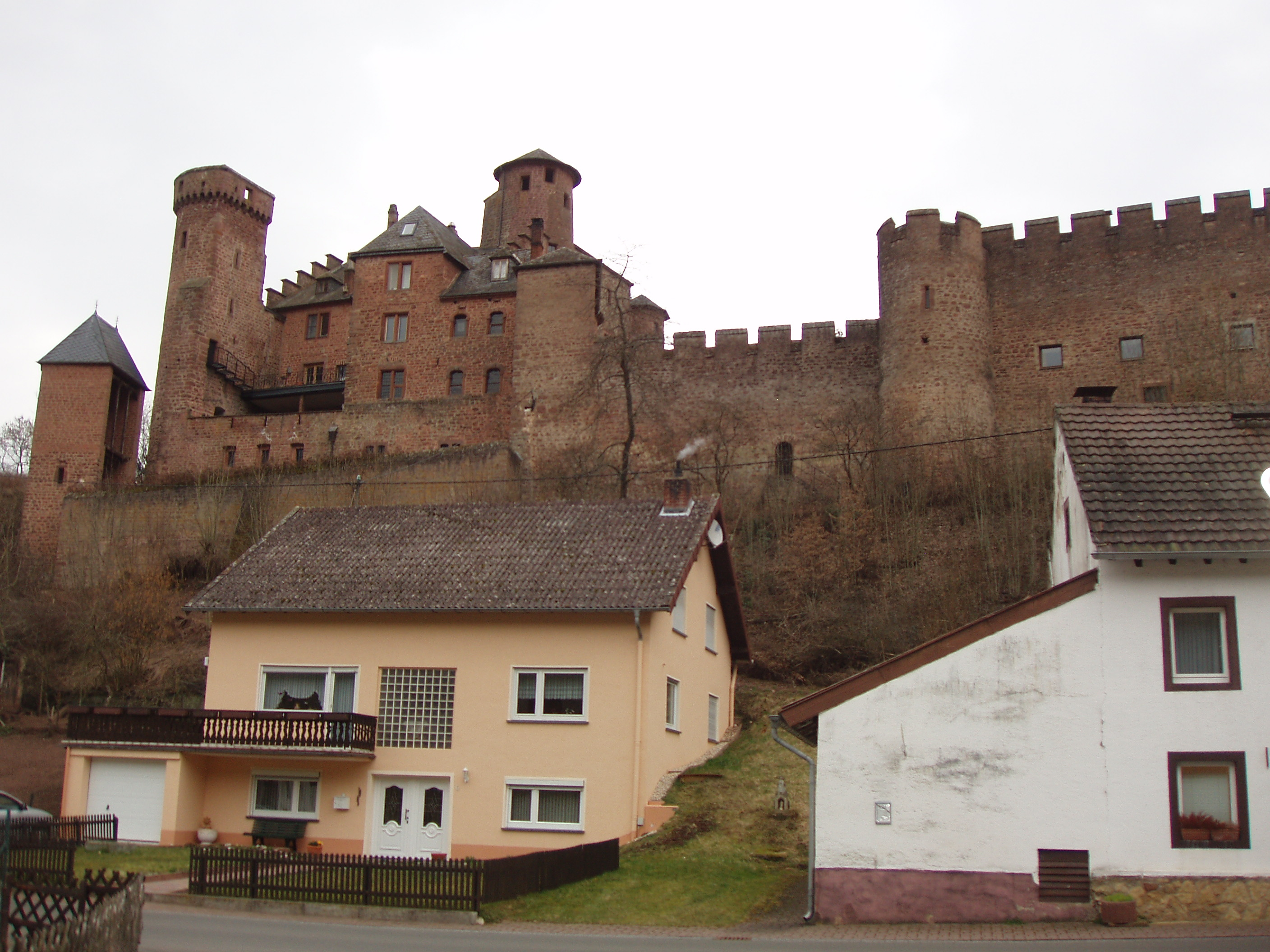 Schloss Hamm, frontal view from Hauptstrasse